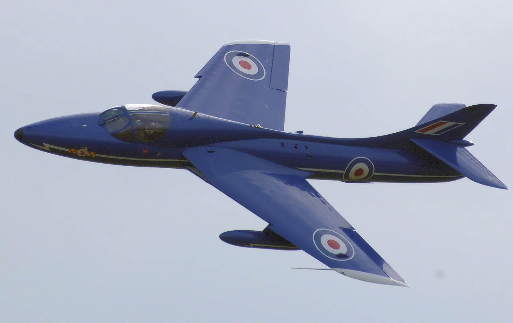 Privately-owned Hawker Hunter T.7 “Blue Diamond” (XL577, G-BXKF) of the Delta Jets fleet, at Kemble Airport Open Day, Gloucestershire, England, September 9th 2007. At speed during the air display. Blue Diamond was built in 1958 for the RAF, and sold to Delta Jets in 1996. She took 6 years to restore to flight. Photographed by Adrian Pingstone and placed in the public domain.